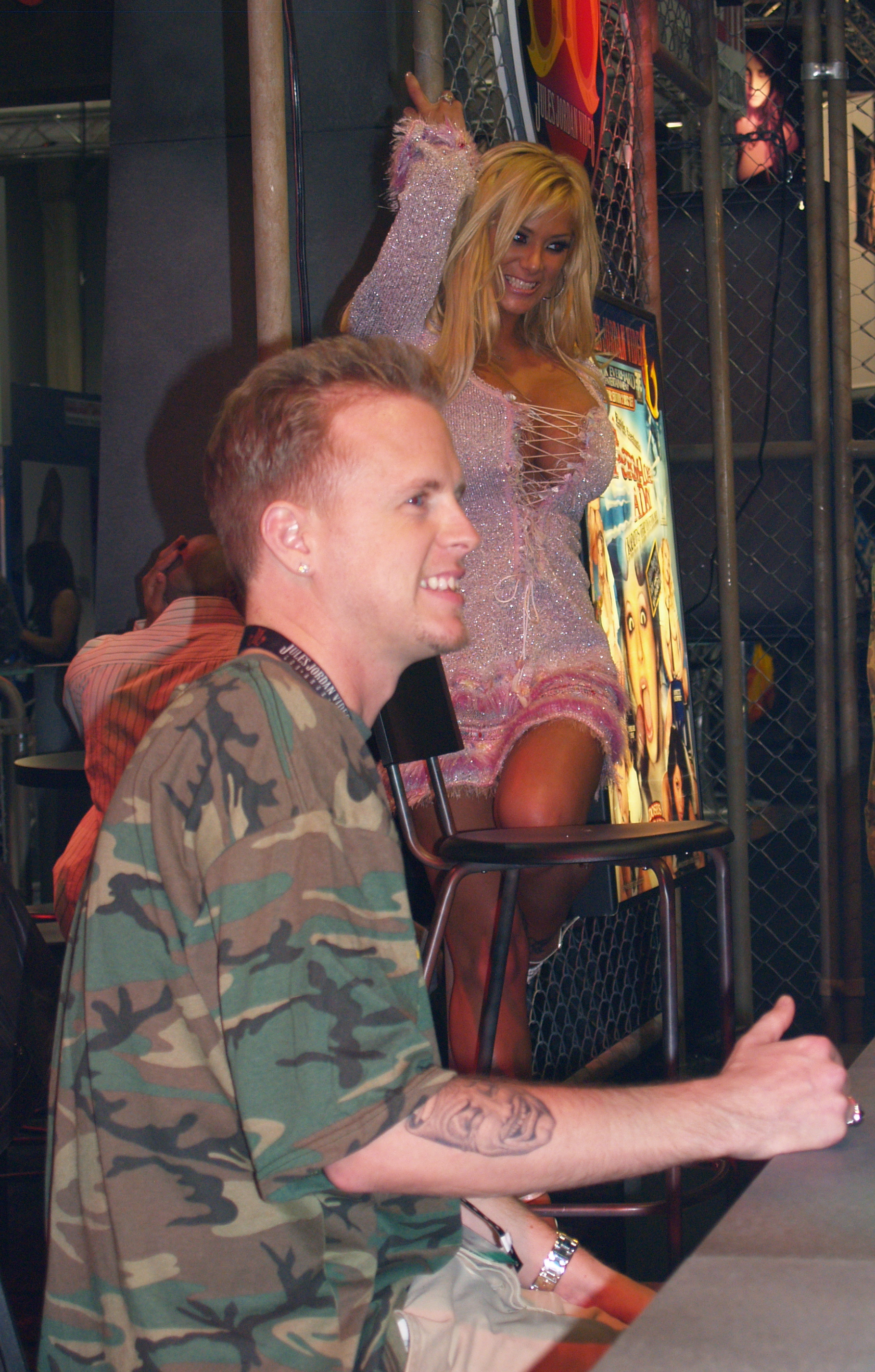 Adult film director and performer Jules Jordan in front of Shyla Stylez, at the 2007 Adult Entertainment Expo in Las Vegas, Nevada